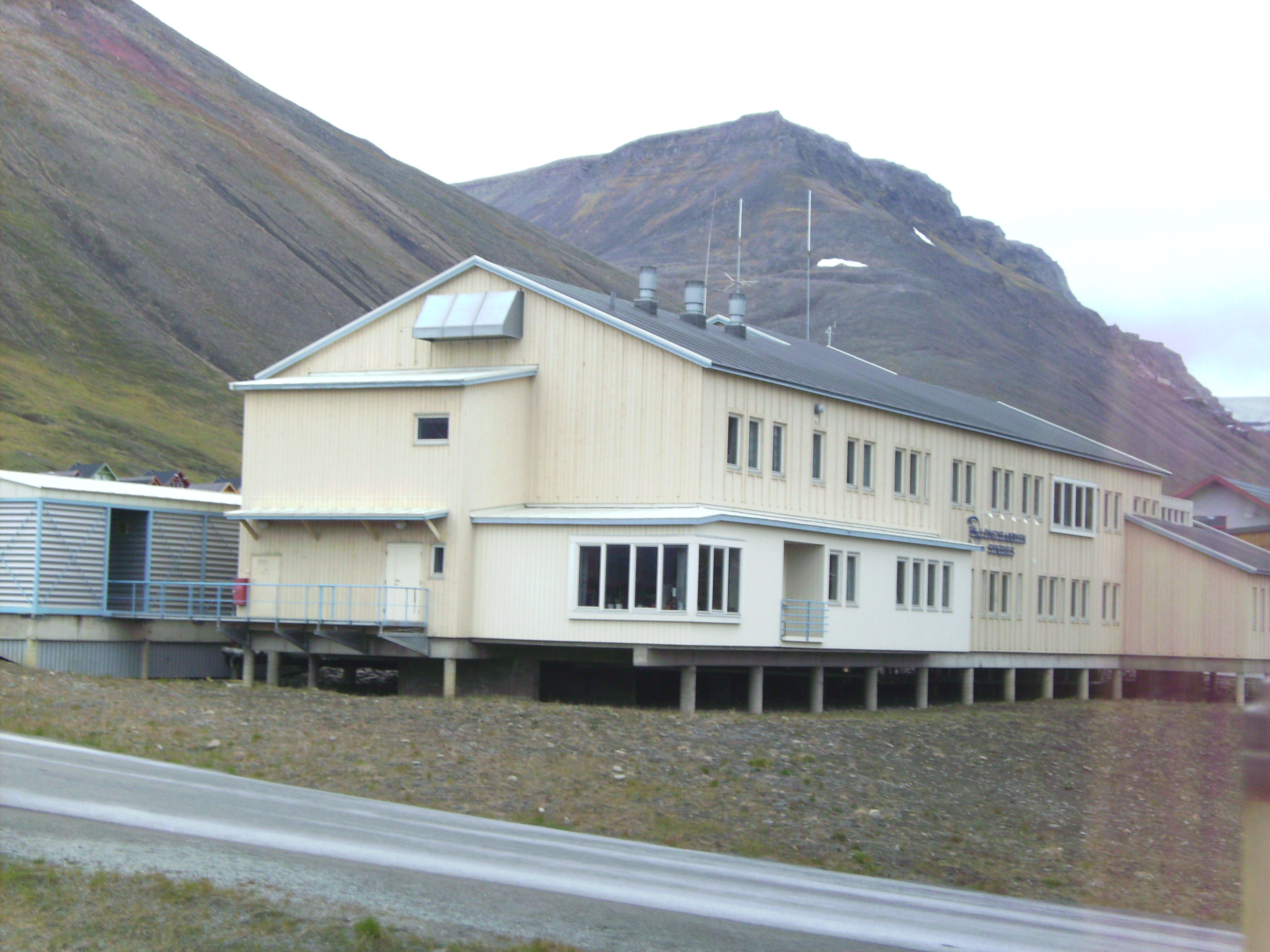 Hospital (Sykhus in norvegian) at Longyearbyen, Svalbard showing the characteristic piles for construction on the permafrost